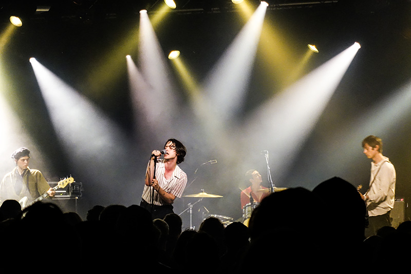 Iceage in Aarhus, Denmark 2016